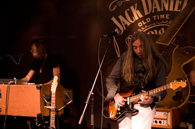 The Bulgarian rock band Sunrize are promoting their single “July Morning” - a cover of Uriah Heep's song.